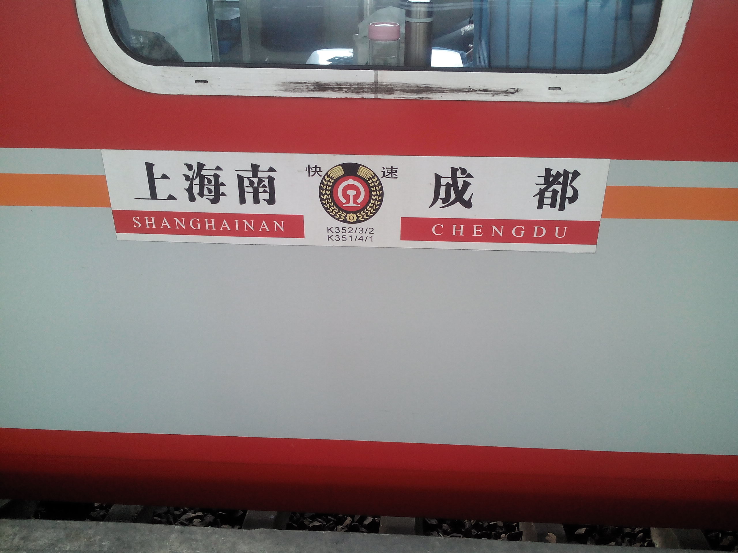 K351 2 3 4 infoboard 201507